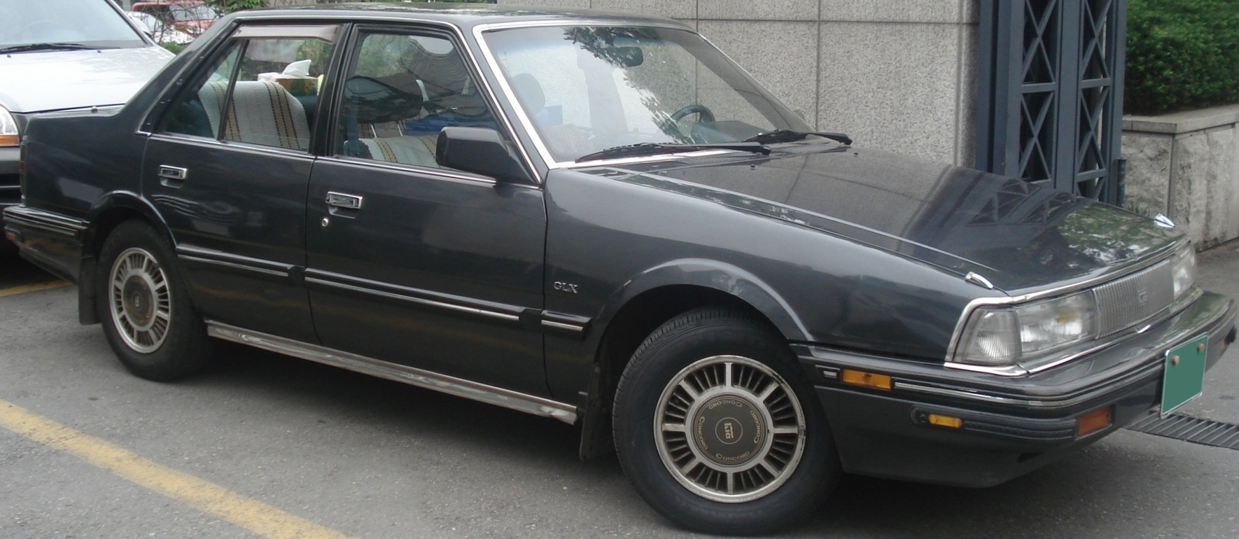 Kia Concord